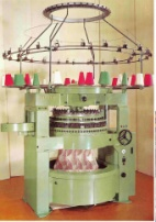 Wevenit